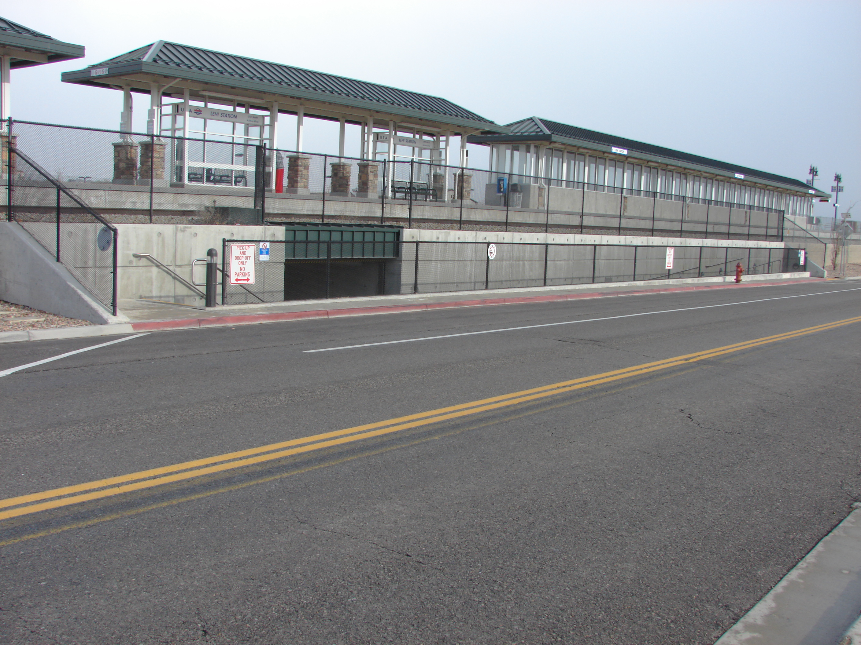 Passenger platform at the Lehi Station, looking from the northwest